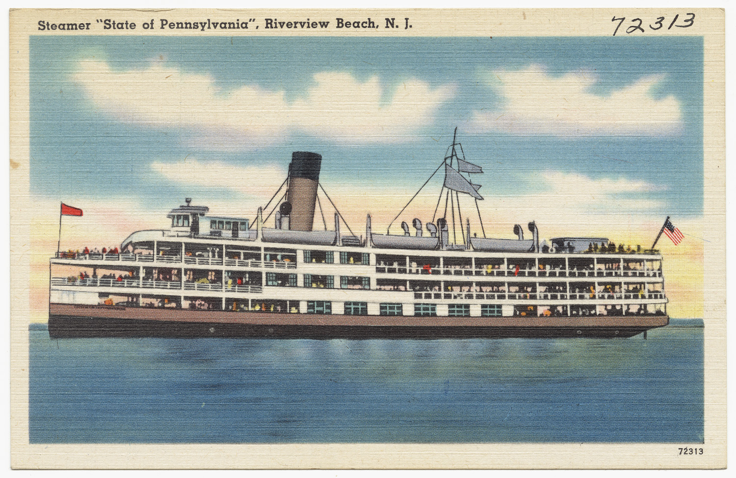 Steamer the "State Of Pennsylvania" based in Wilmington, Delaware, which had a regular route between Philadelphia, PA, Wilmington, and New Jersey. Printed without copyright notice. Part of the Boston Public Library collection. Their metadata from Flickr follows: Boston Public Library Follow Steamer 'State of Pennsylvania', Riverview Beach, N. J. File name: 06_10_011984 Title: Steamer 'State of Pennsylvania', Riverview Beach, N. J. Date issued: 1930 - 1945 (approximate) Physical description: 1 print (postcard) : linen texture, color ; 3 1/2 x 5 1/2 in. Genre: Postcards Subject: Ships; Lakes & ponds Notes: Title from item. Collection: The Tichnor Brothers Collection Location: Boston Public Library, Print Department Rights: No known restrictions